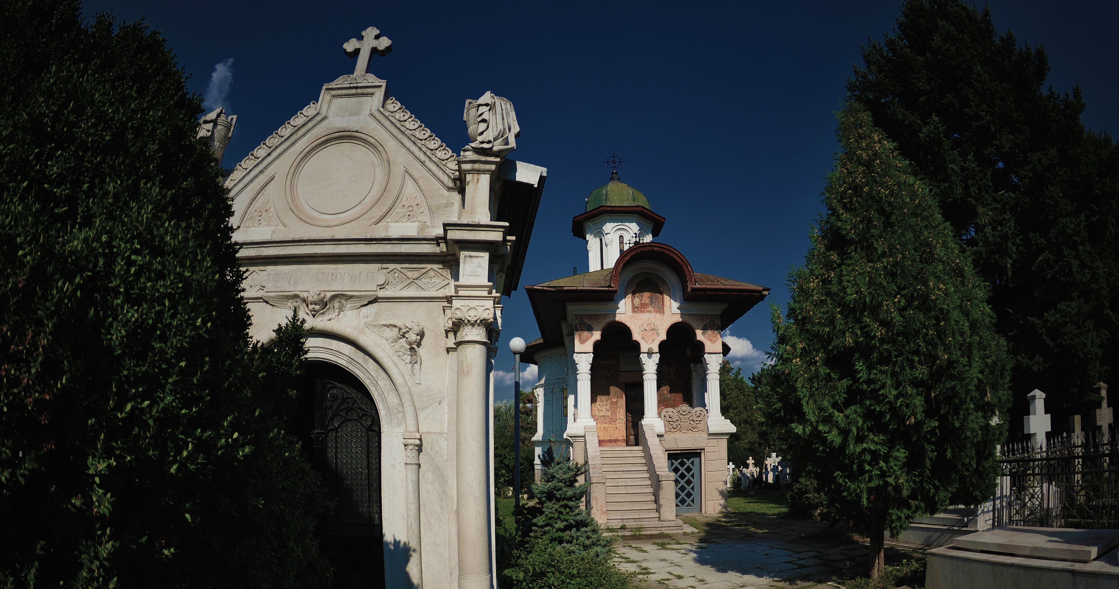 Cernica Monastery, St. Lazarus Church [cemetery chapel], near Bucharest, Romania built around 1863